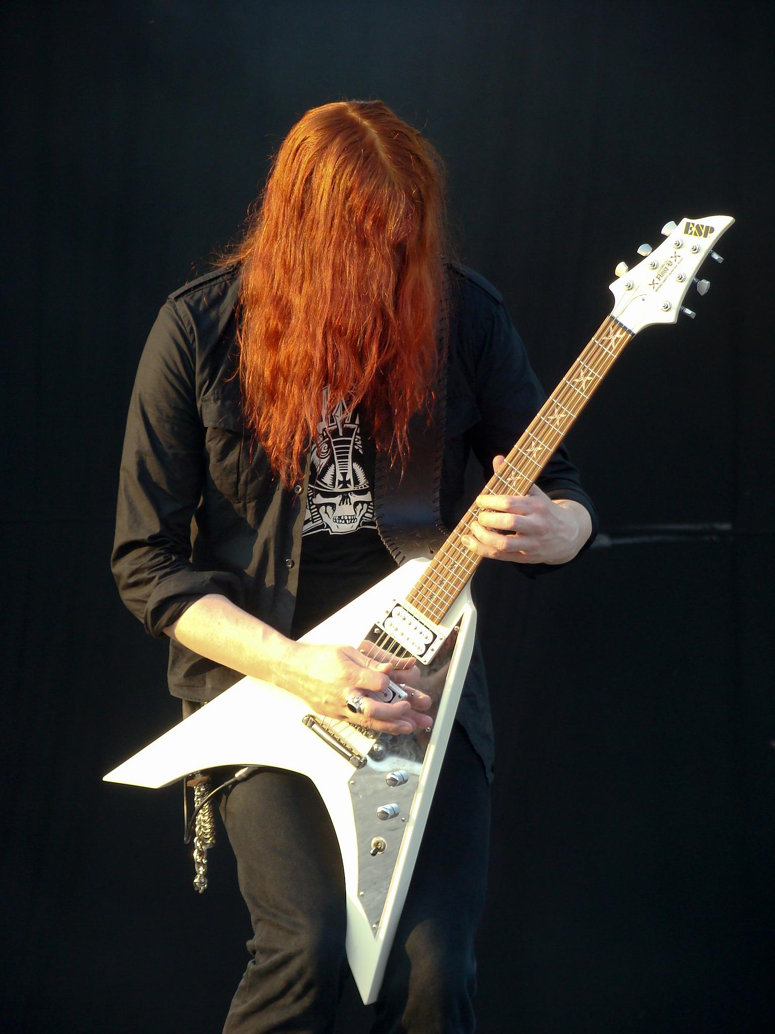 Michael Amott performing with Carcass at Gods of Metal festival in Bologna, Italy.